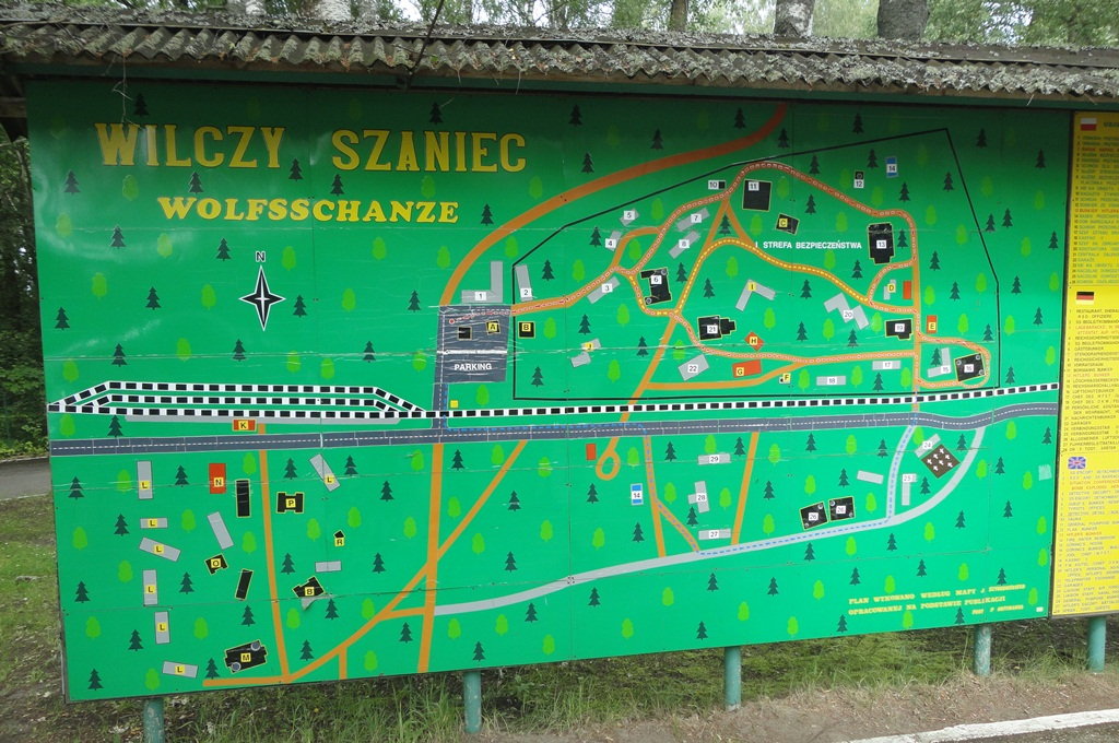 Wolf's Lair near Kętrzyn, Poland